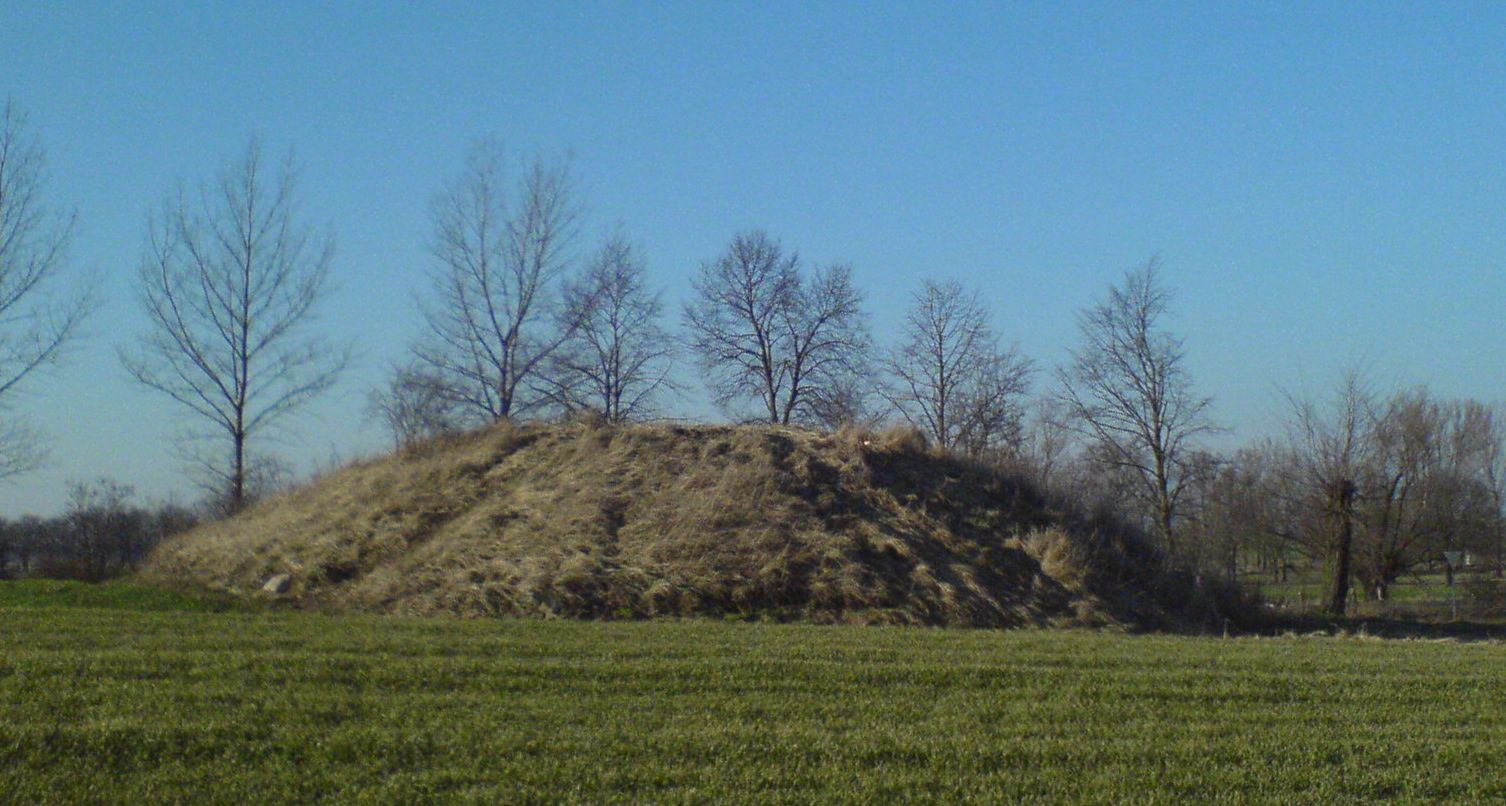 Tumulus in Łęki Wielkie, Poland